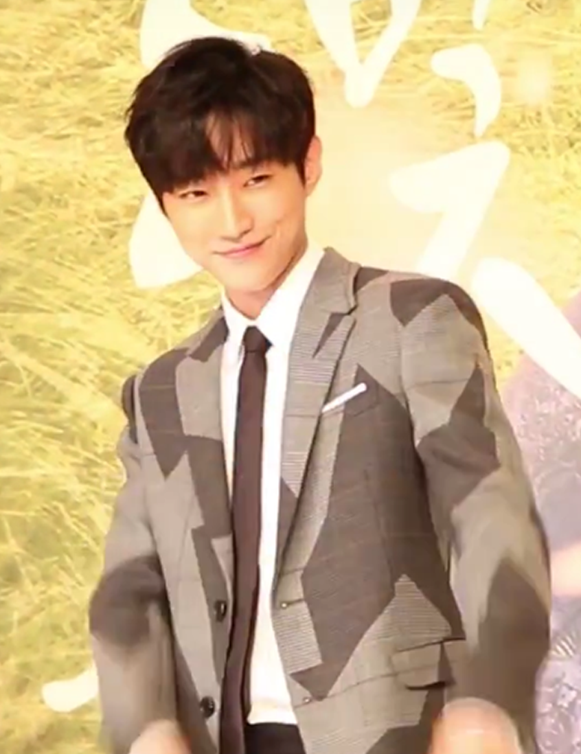 Jung Jin-young at Love in the Moonlight Press Conference on August 18, 2016.